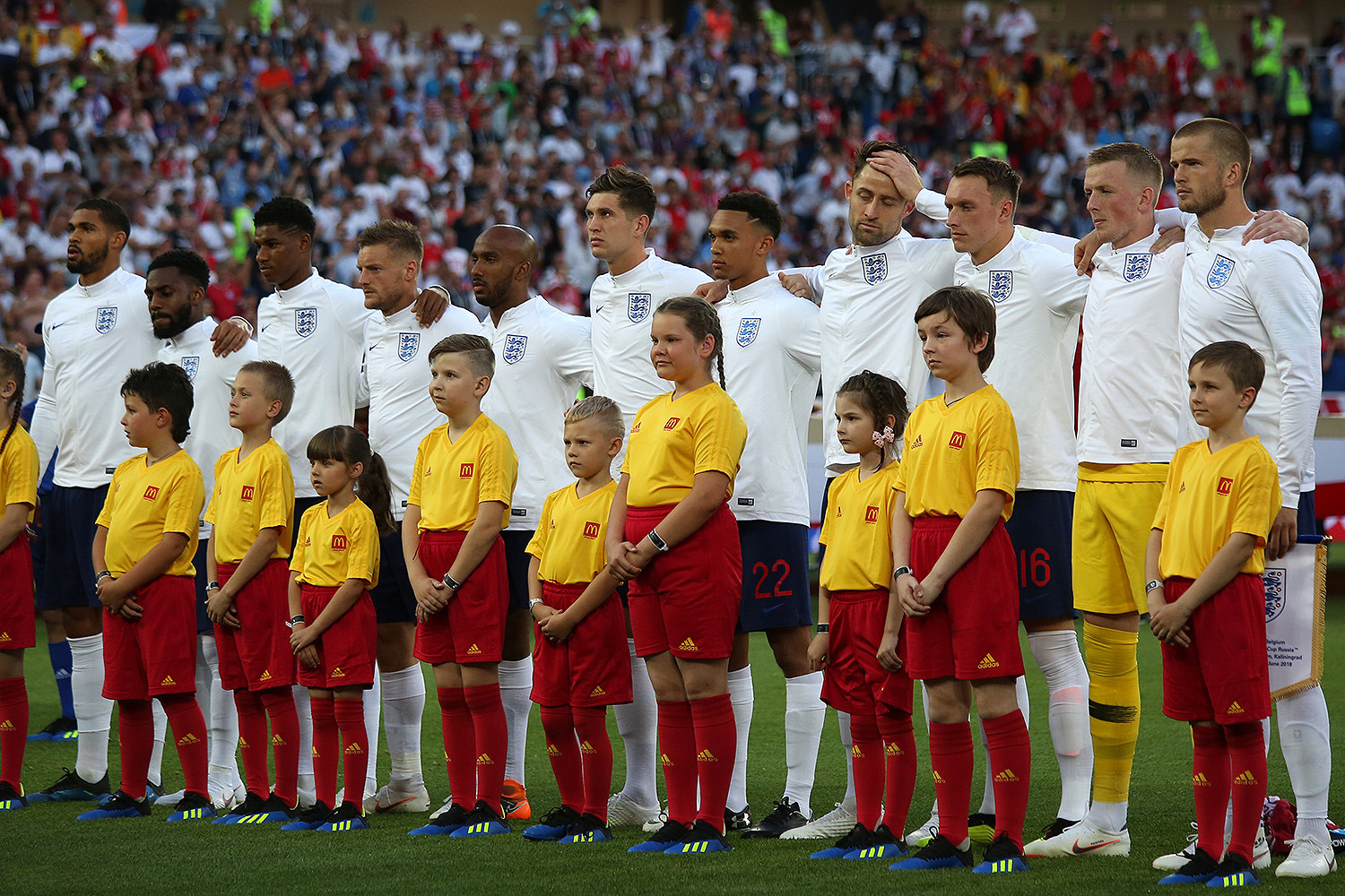 England line-up before game v Belgium.